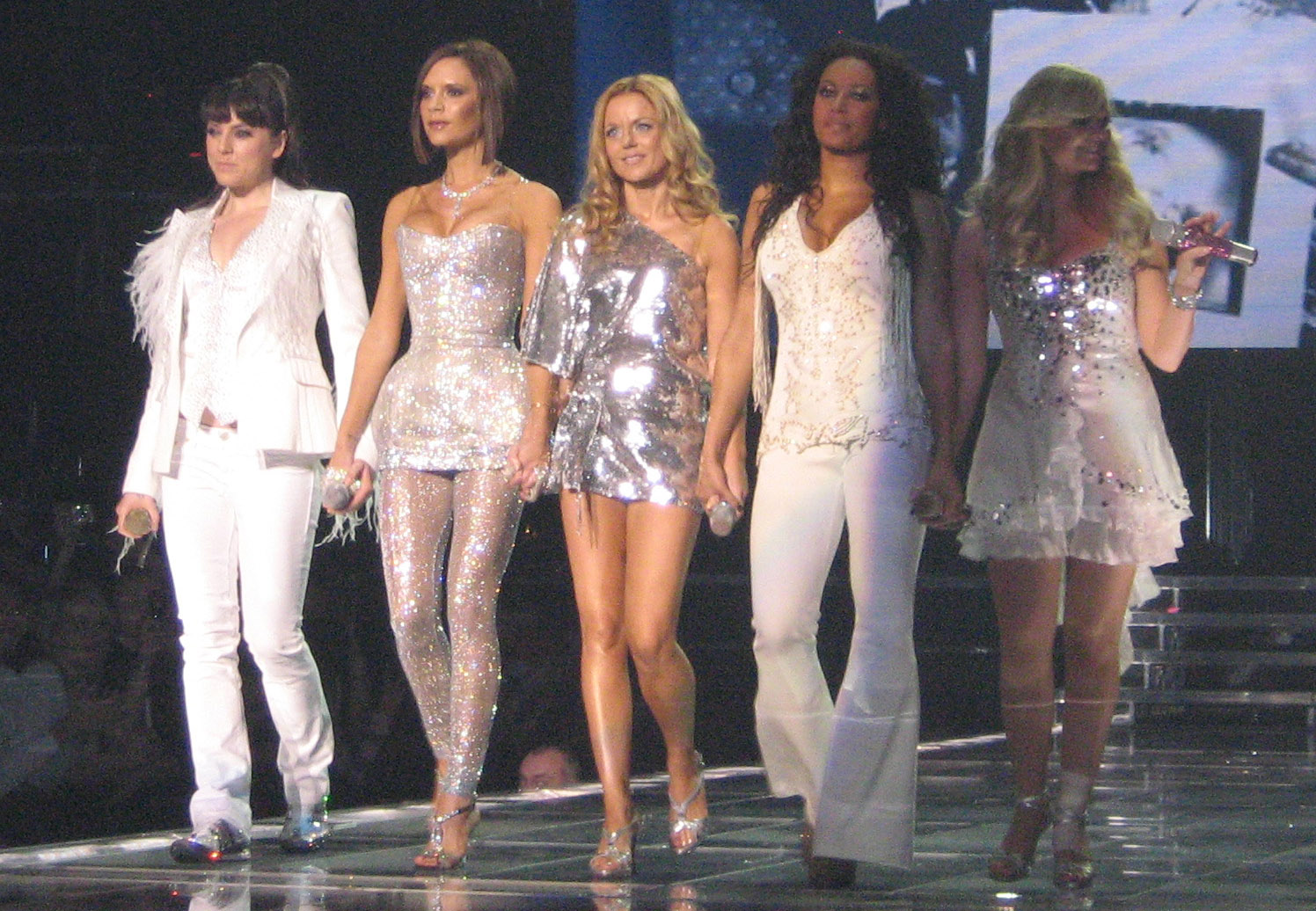 Spice Girls in Cologne